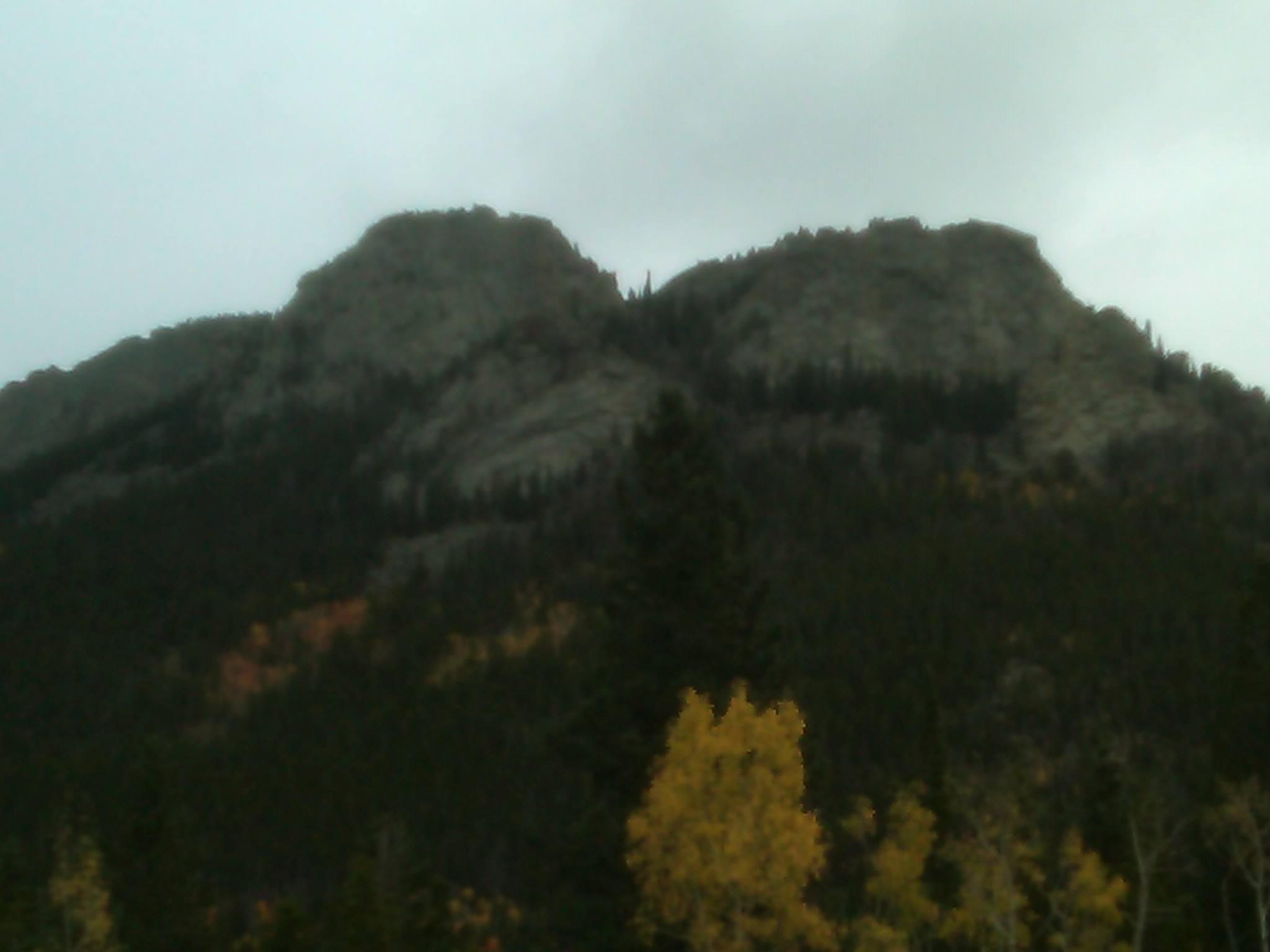 Thorodin from Gap Road